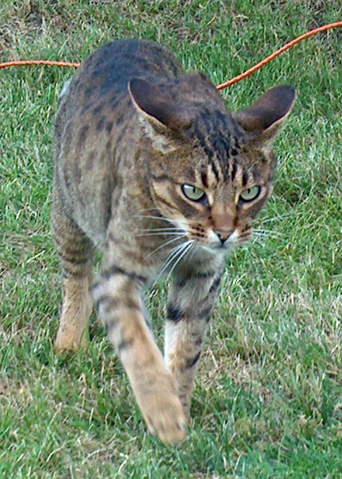 Ocicat «Rizzo» (cat breed)